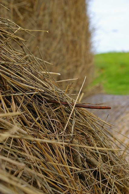 Hay (part of a round hay bale) on Earls Hall Farm